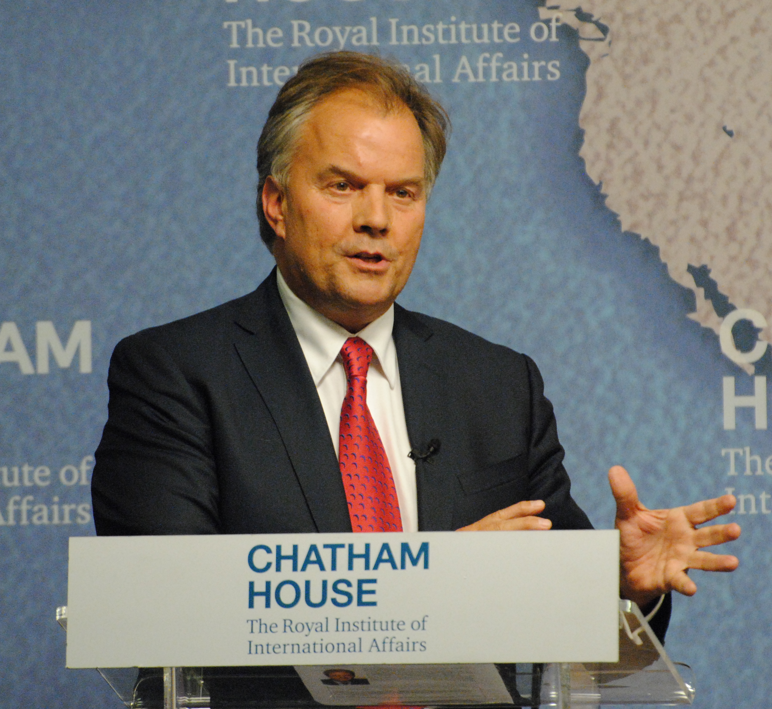 Crises Across the Mediterranean: Confronting Common Challenges, 14 September 2015, cht.hm/1F8HmO6